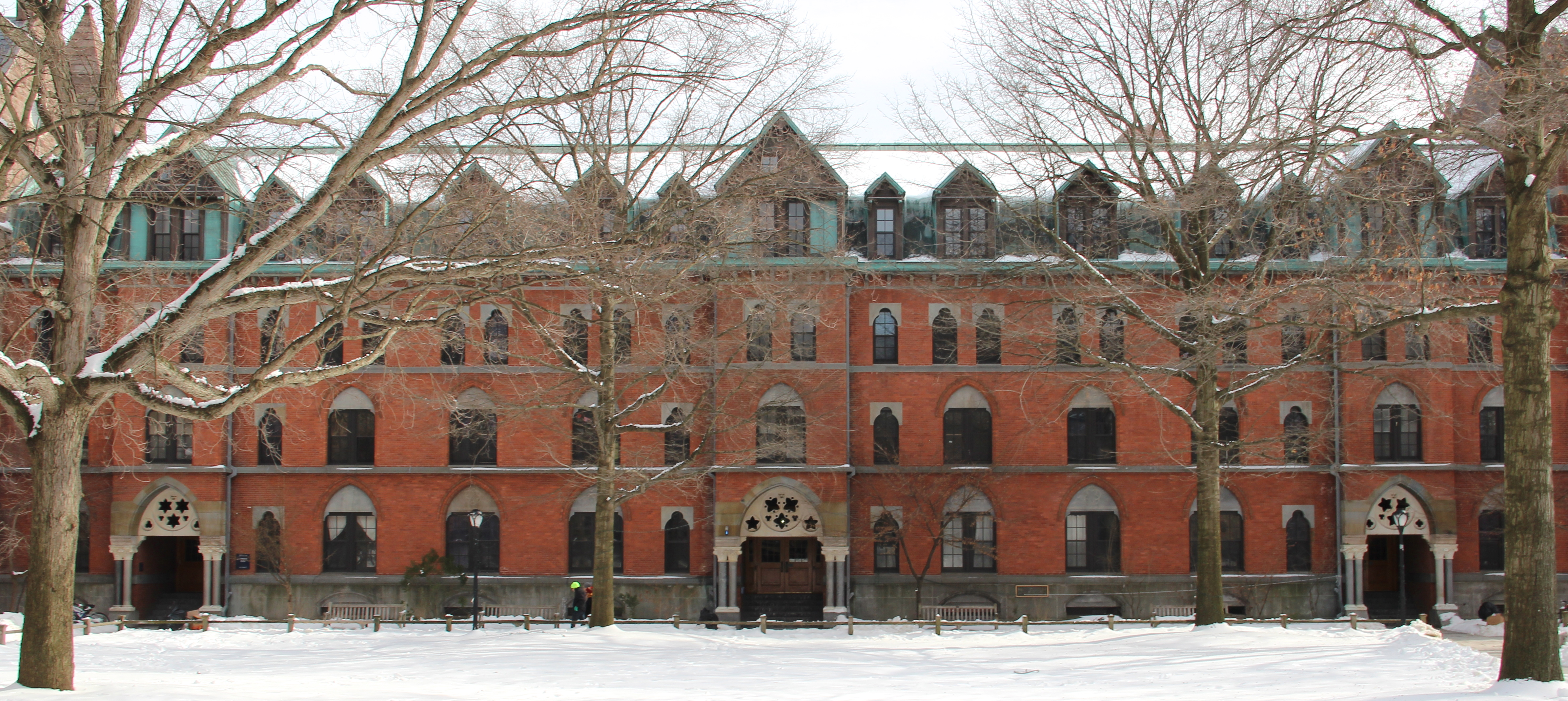 Henry Farnam Hall, a freshman residence hall on the Old Campus of Yale University